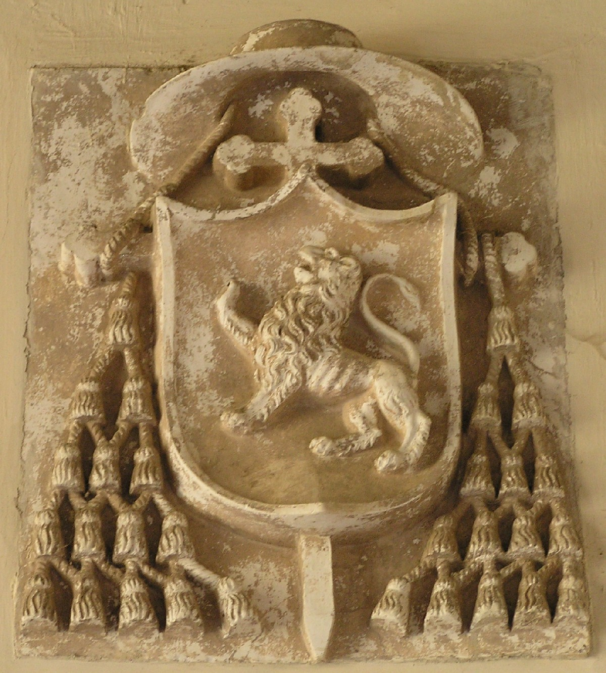 Order or Saint Hieronymus coat of arms, at the Monasterio de El Parral (Segovia, Spain), built at the end of 15th cent.